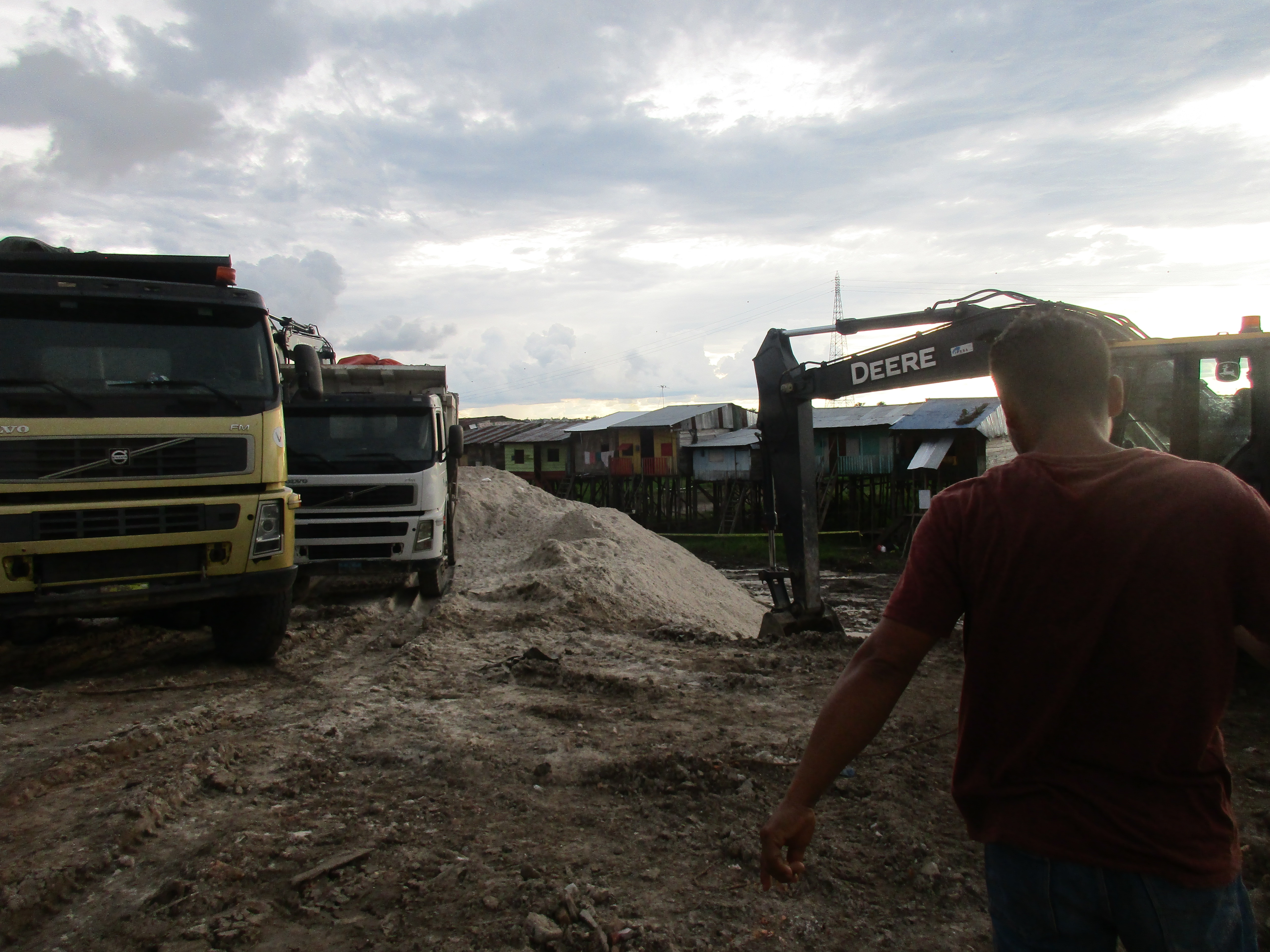 Vigilante de los vehículos utilizados para la construcción del Puente Nanay